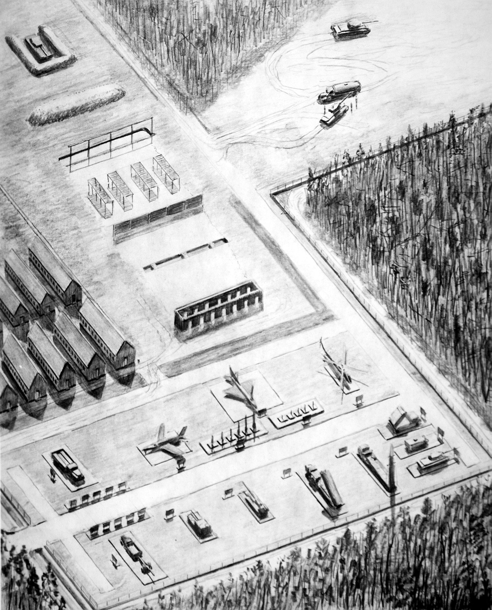 Special purpose forces (SPETSNAZ) training facility.